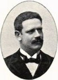 Jakob Axel Henning Bergman (born 1859), Swedish engineer